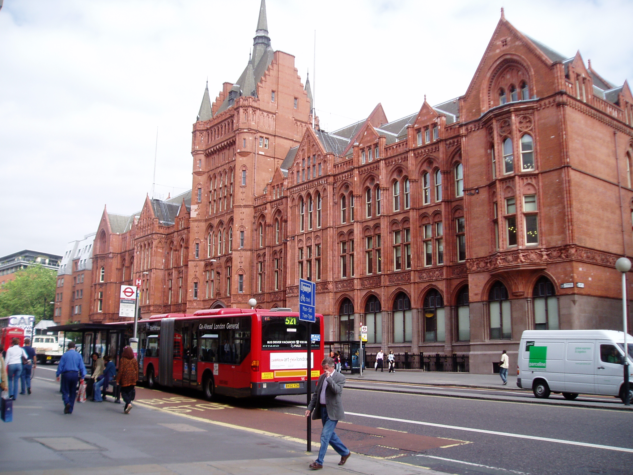 Photography taken by User:MarkS 14 June 2004. 142 Holborn Bars, High Holborn London. Traditional home of the Prudential Assurance Company, designed by Alfred Waterhouse.